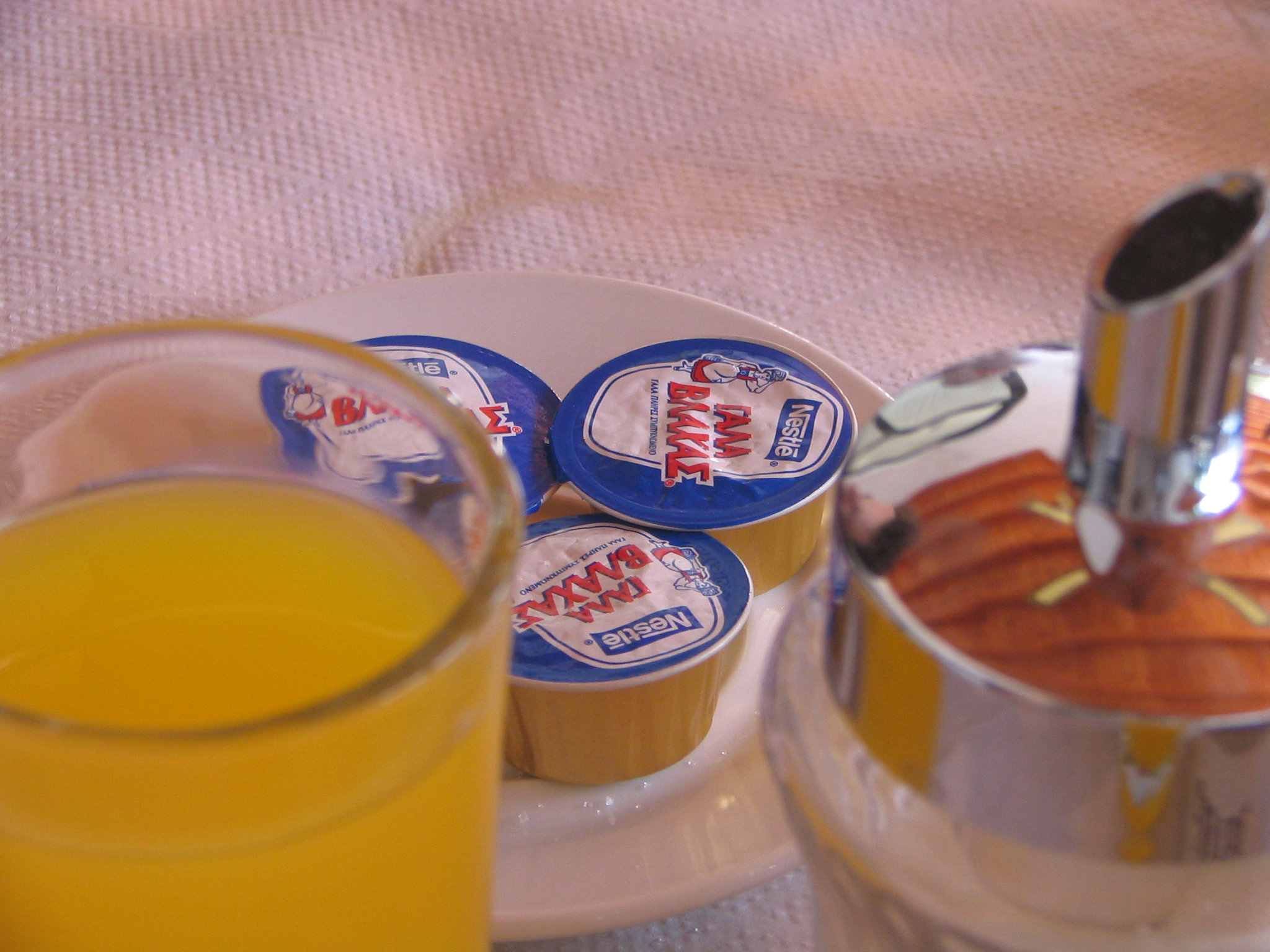 in Greece